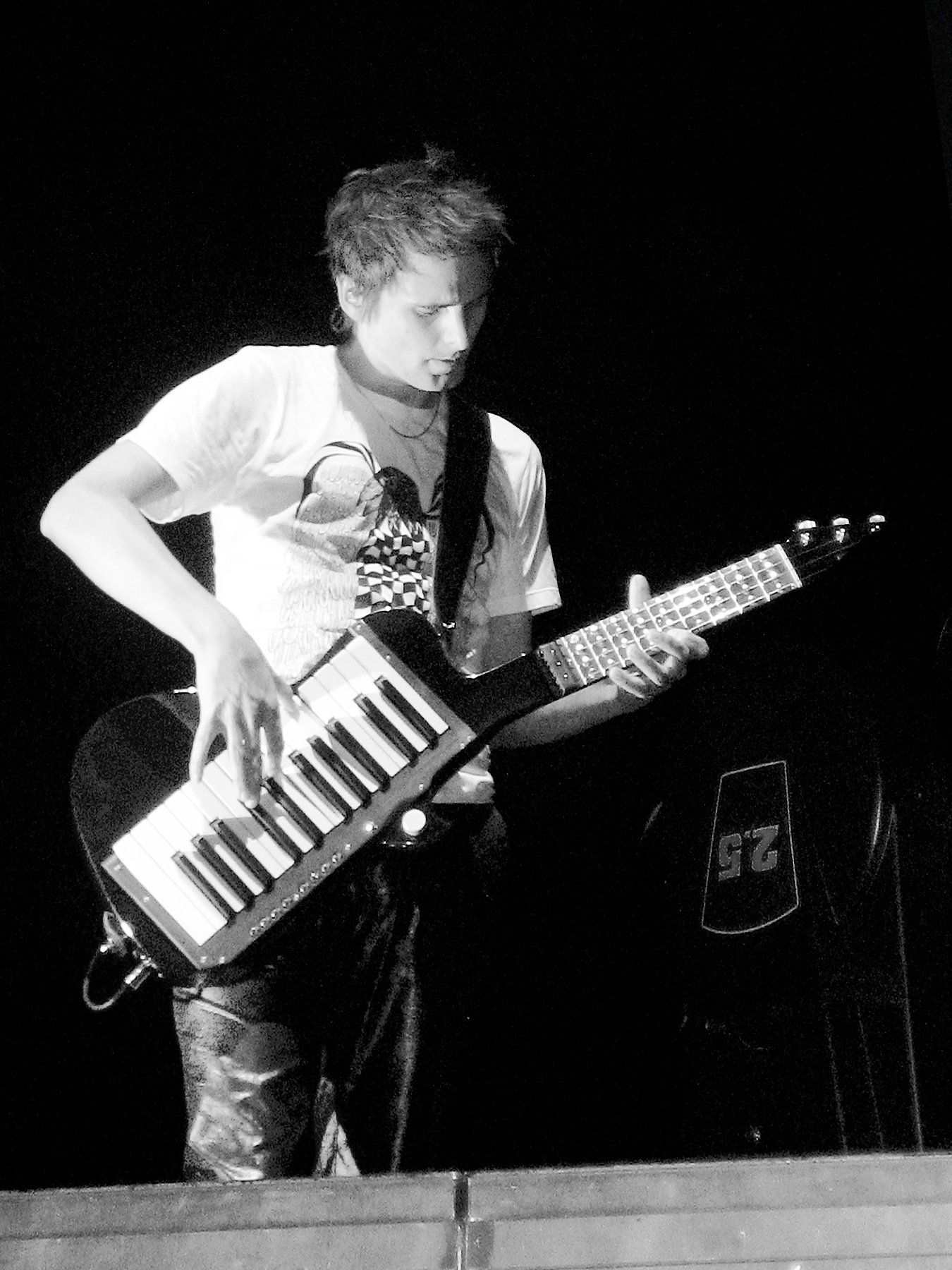 Mattew Bellamy, The Resistance Tour, Patriot Center, 2010-03-01 Manson Keytar